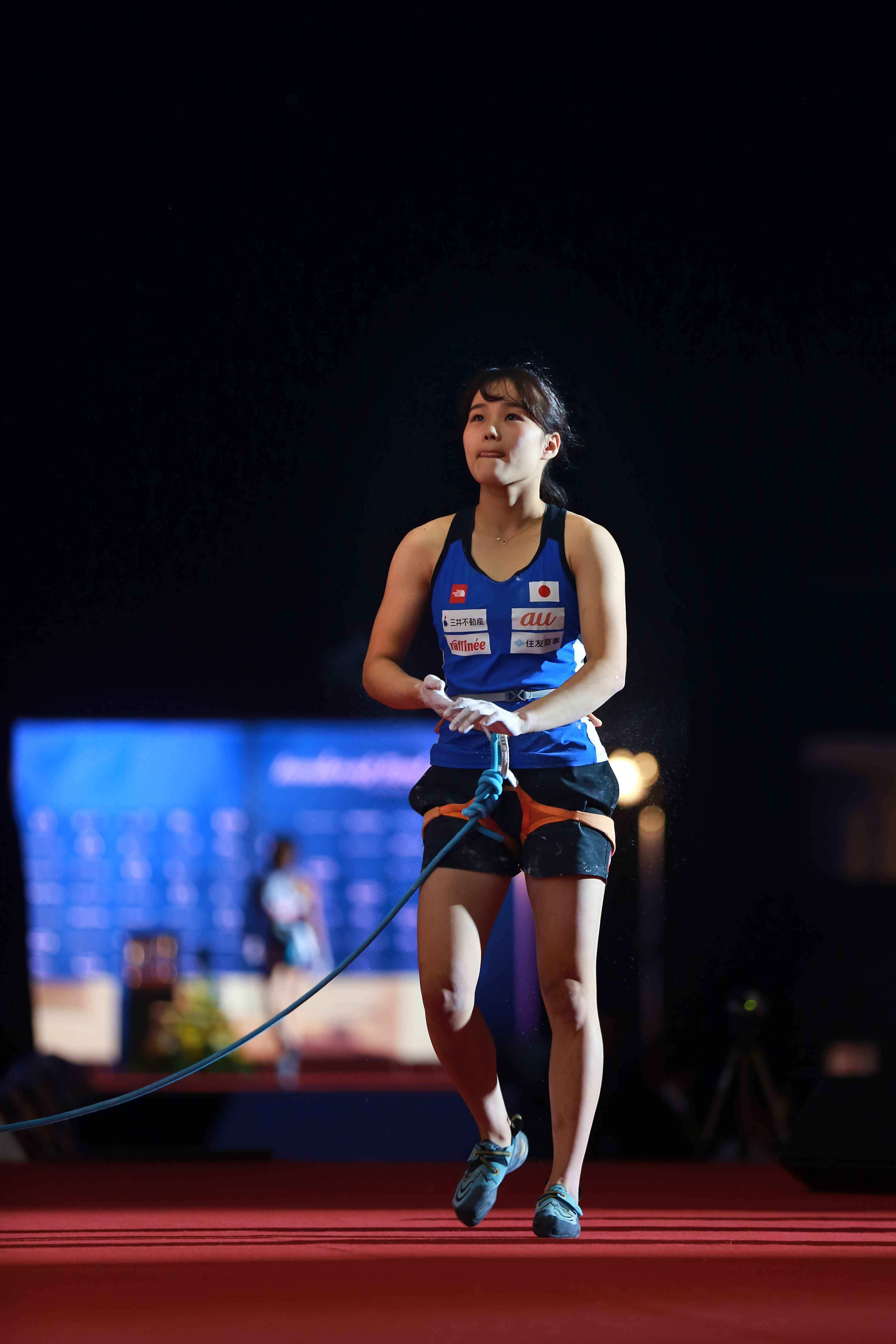 Climbing World Championships 2018 Lead Final Kotake